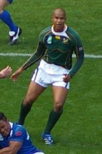 Springbokke winger, JP Pietersen during their 2007 RWC match against Samoa